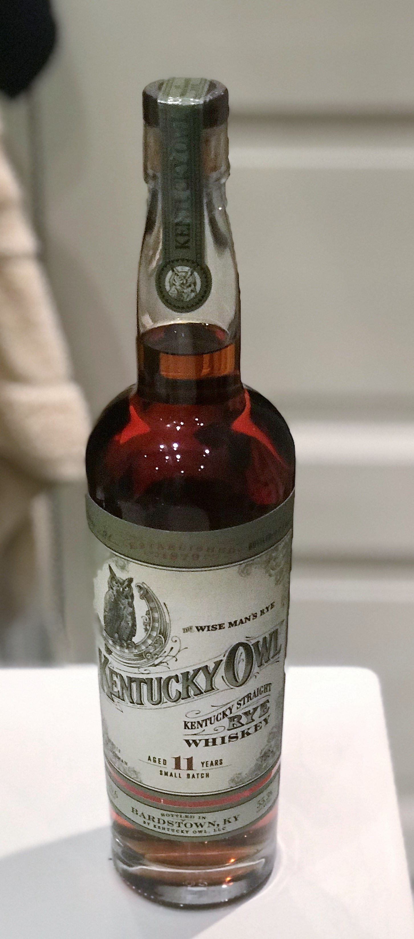 Kentucky Owl Rye Whiskey (Batch 01)